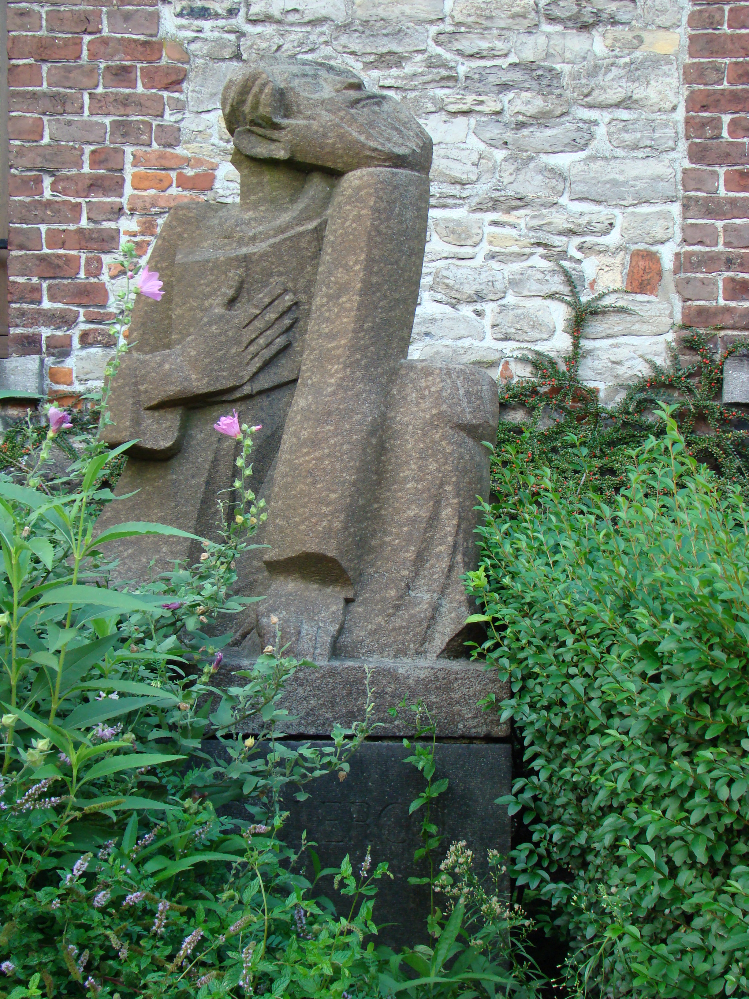 Memorial Deerlijk (West Flanders, Belgium)